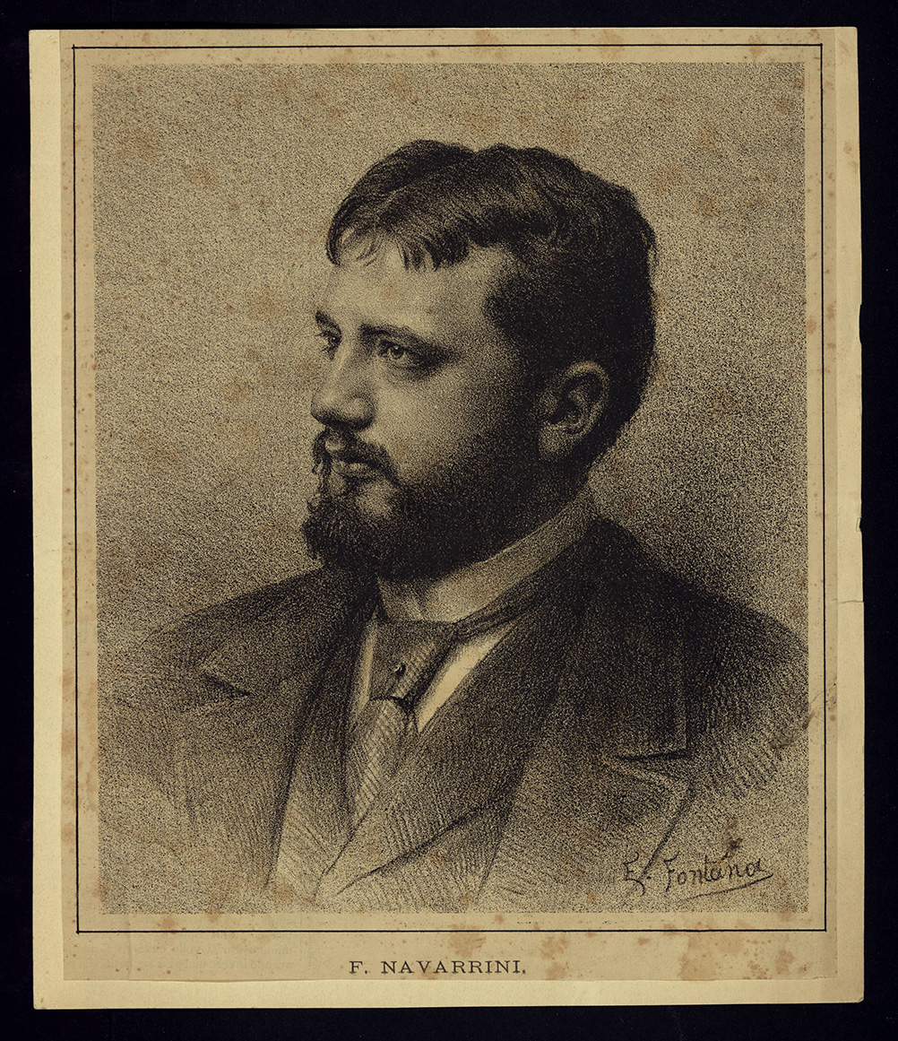 Portrait of Francesco Navarrini, basso (1855-1923), about 1889.